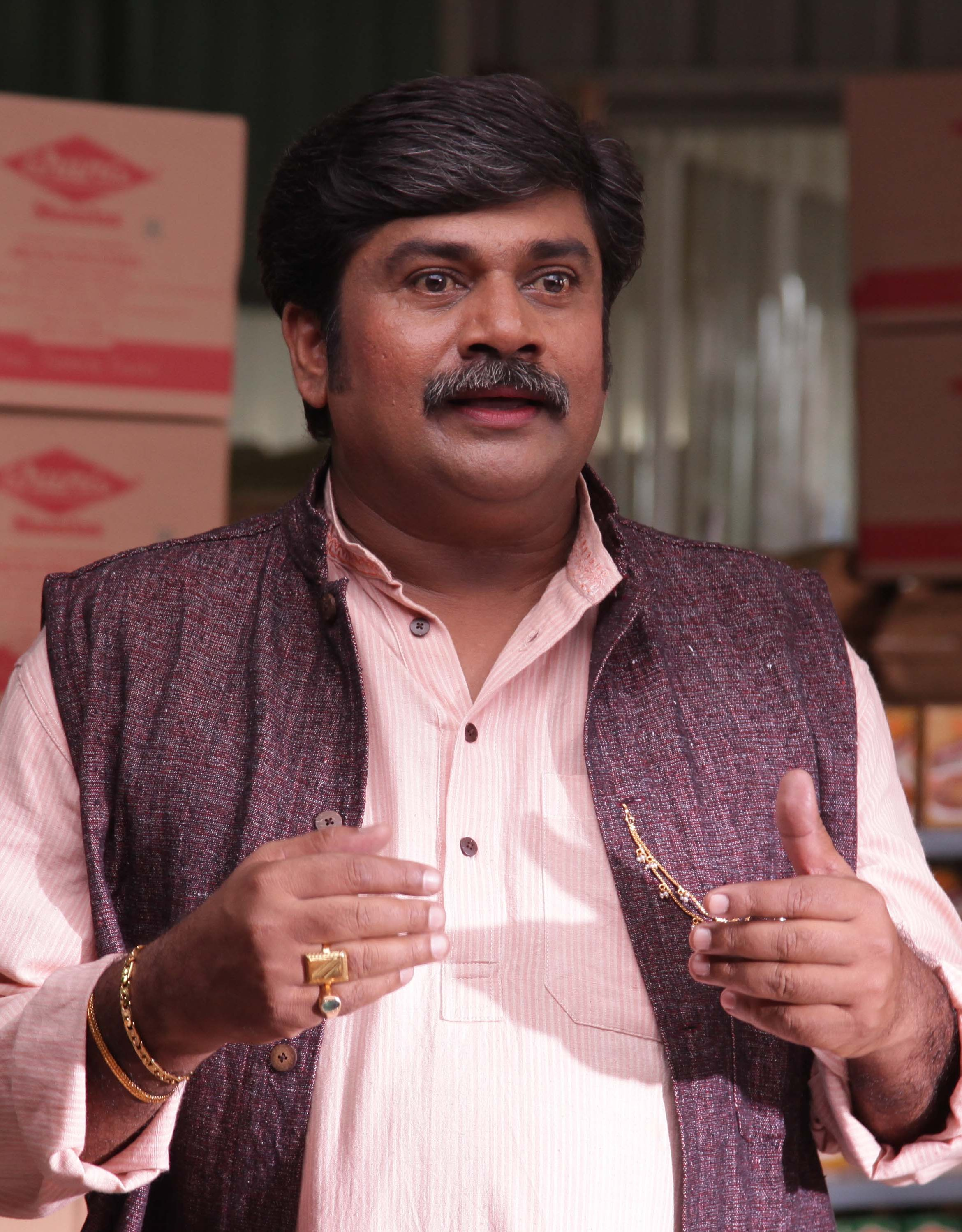 Rangayana Raghu During the shoot of Ishtakamya